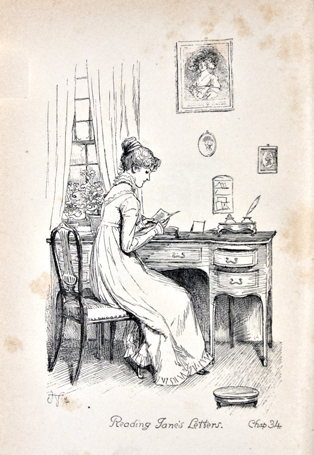 "Reading Jane's letters" - Elizabeth reading Jane's letters - Austen, Jane. Pride and Prejudice. London: George Allen, 1894, frontispiece.